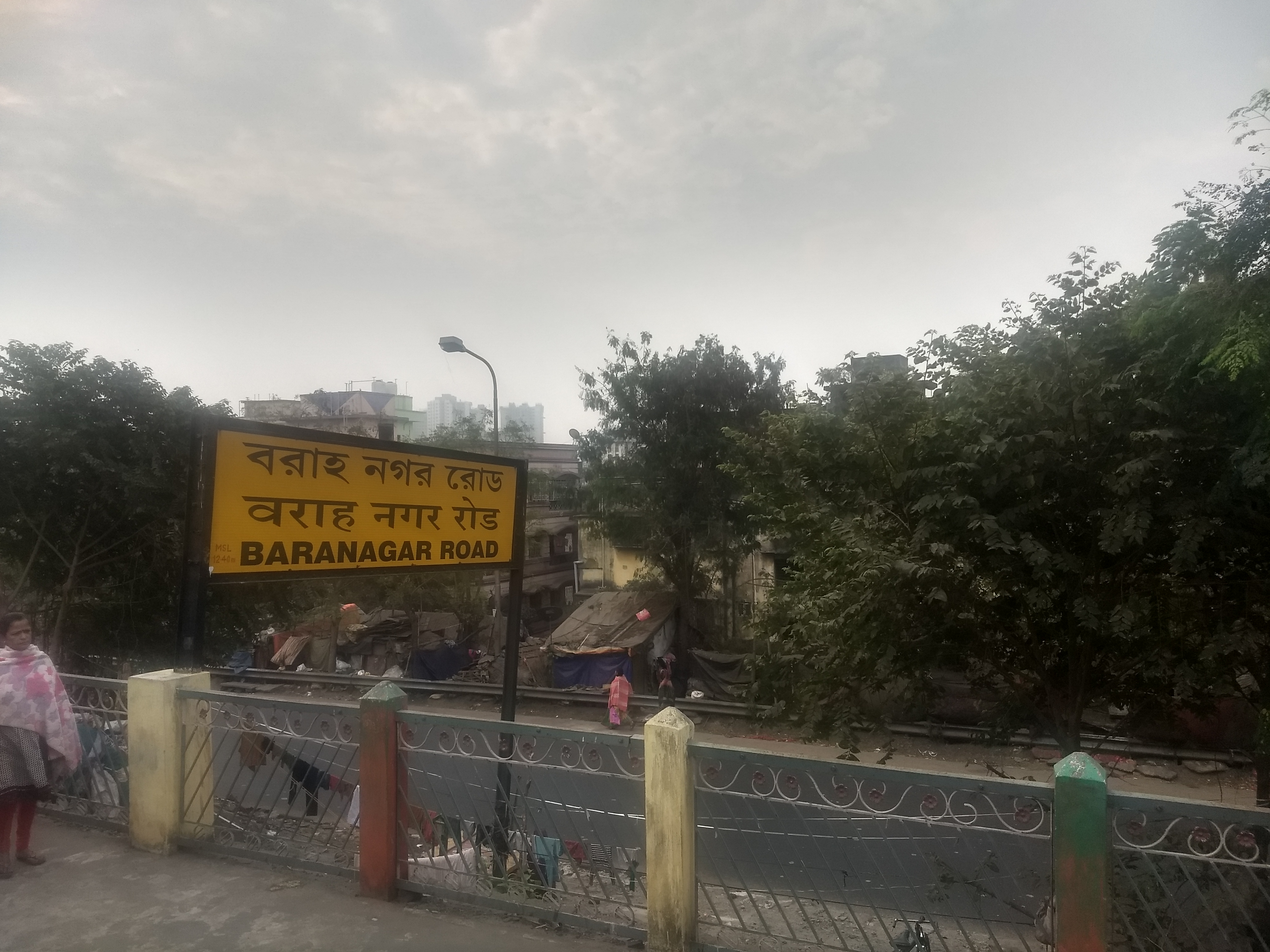 Baranagar Road railway station